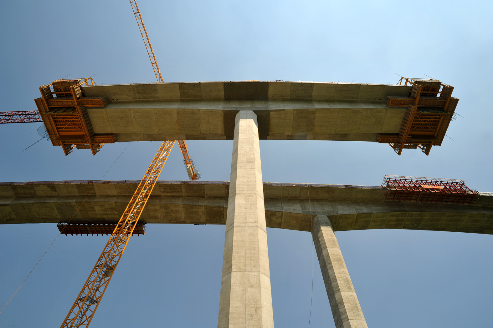 Viaducs du Creugenat, bridges of the A16 west of Porrentruy; Jura, Switzerland. Clearly visible on the southern track is the free cantilever method.